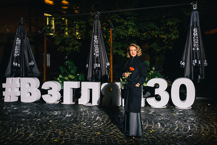 Синельщикова на праздновании 30 лет "Взгляда"